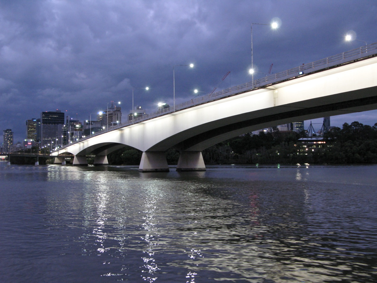 The Captain Cook Bridge over the Brisbane River at Brisbane.